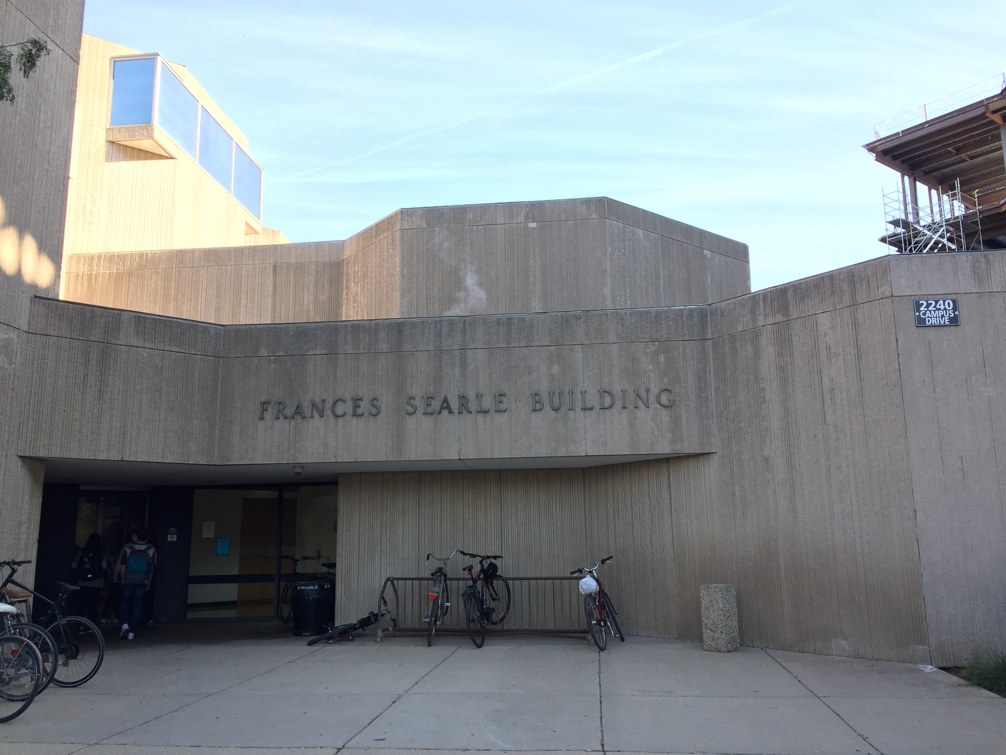 Frances Searle Building, Northwestern University